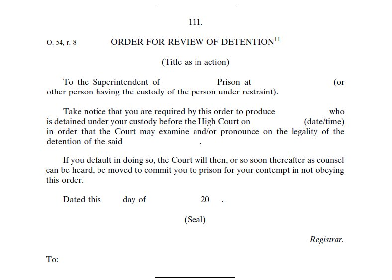 Form 111 of the Rules of Court (Cap. 322, R 5, 2006 Rev. Ed.), which is the format for an order for review of detention (formerly known as an order of habeas corpus).